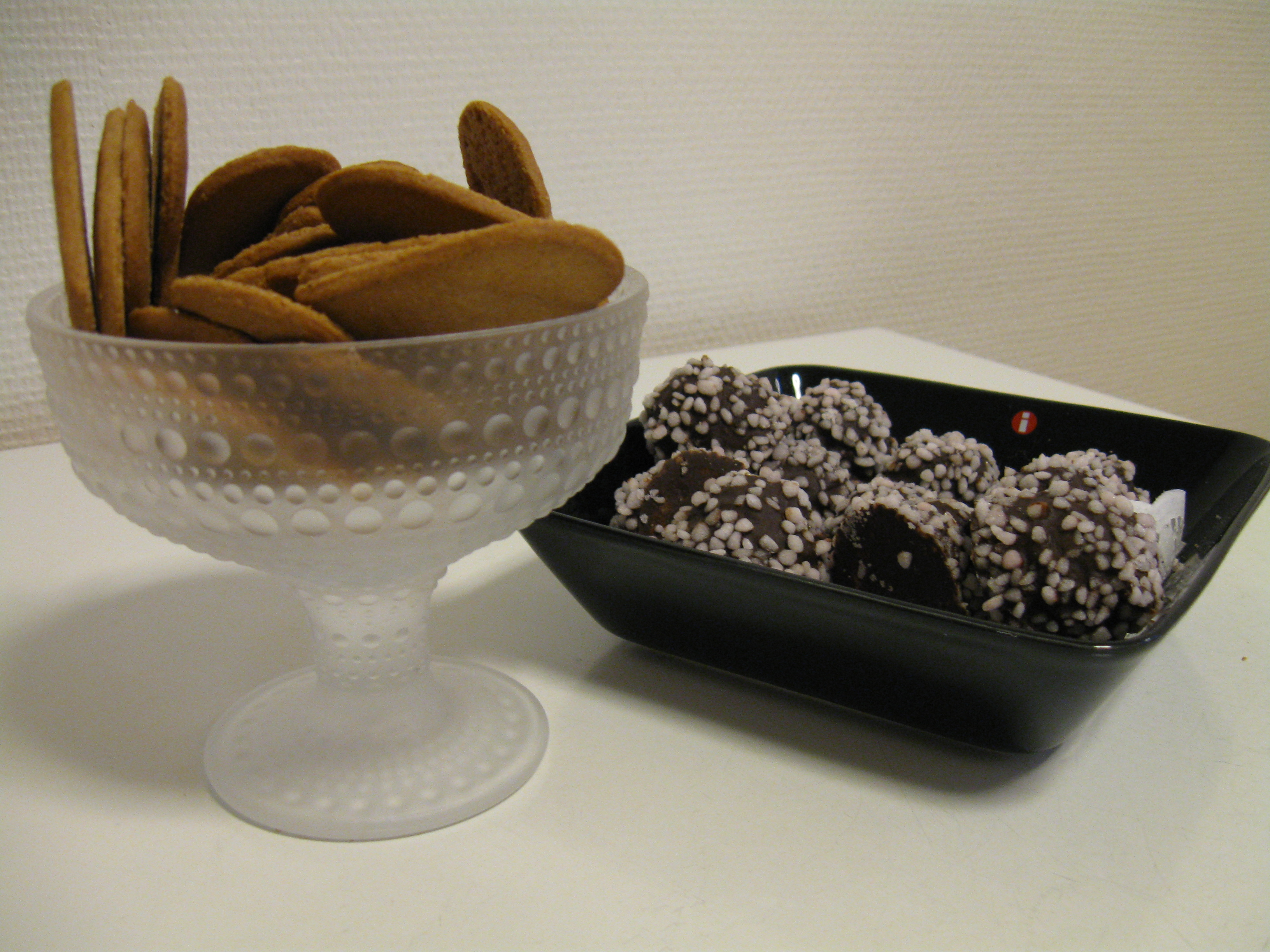 Finnish Iittala products, Kastehelmi bowl by Oiva Toikka and Teema plate by Kaj Franck, filled with Swedish cookies.